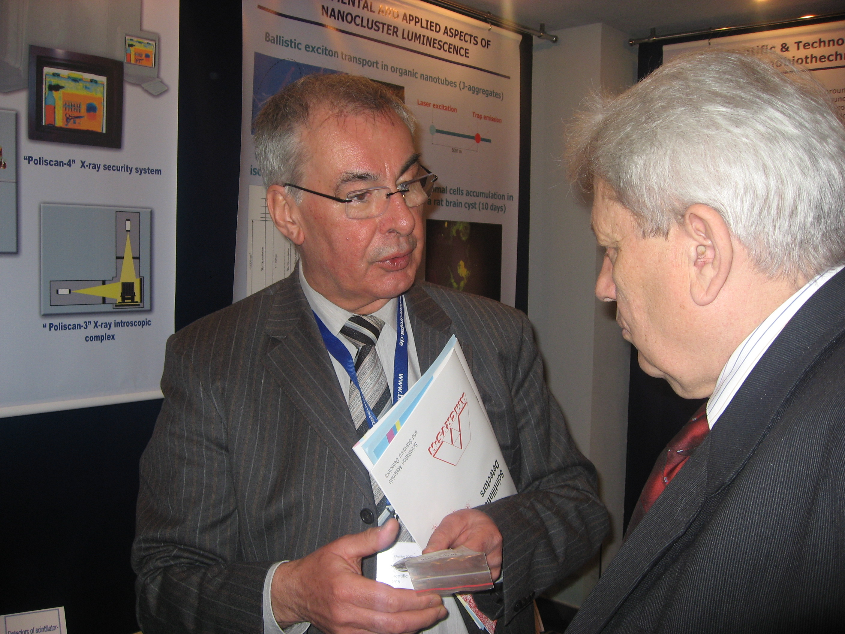 Prof Norbert Langhof in Charkov, visiting the Technopark Monocrystals